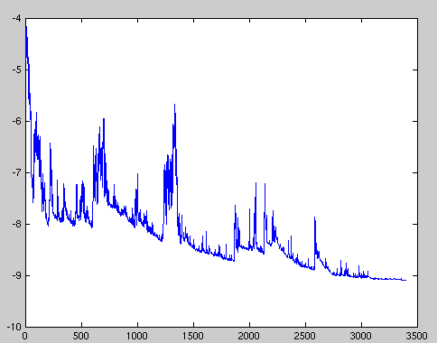 Example of a convergence plot with stochastic gradient. I created this solving a machine learning problem on MatLab